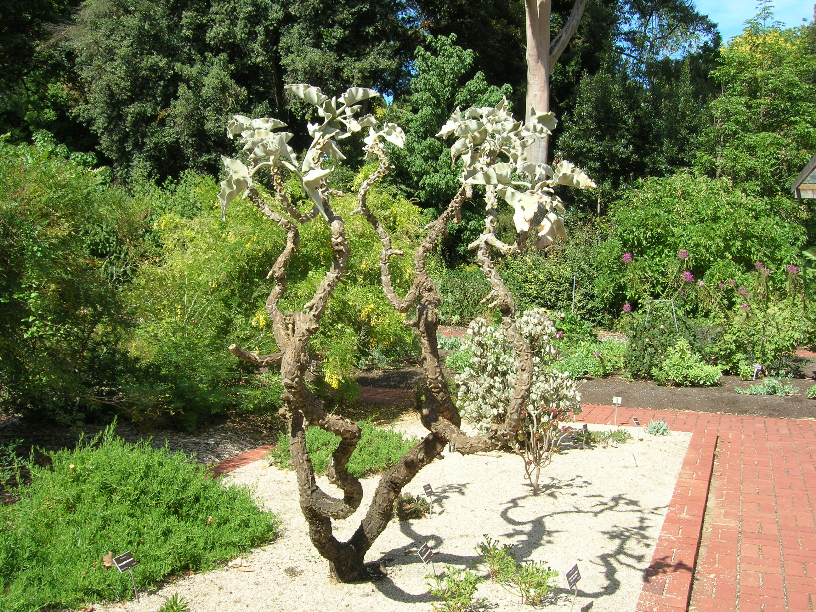 Kalanchoe beharensis (Elephant's ear Kalanchoe) - an interesting palnt that is native to Madagascar. i040707 274